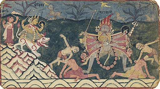 Illustration from a Devi Mahatmya series Nepal, early 18th century. The blue-skinned Mahakali depicted at right with six arms, Durga with green skin at left on her her tiger. Opaque pigments on wasli; 4 5/8 x 8¼ in. (11.6 x 21 cm.). Provenance: Paul F. Walter Collection Artist or Maker: NEPAL, EARLY 18TH CENTURY Exhibited: Durga: Avenging Goddess, Nurturing Mother, Norton Simon Museum of Art, October 7, 2005 - March 27, 2006